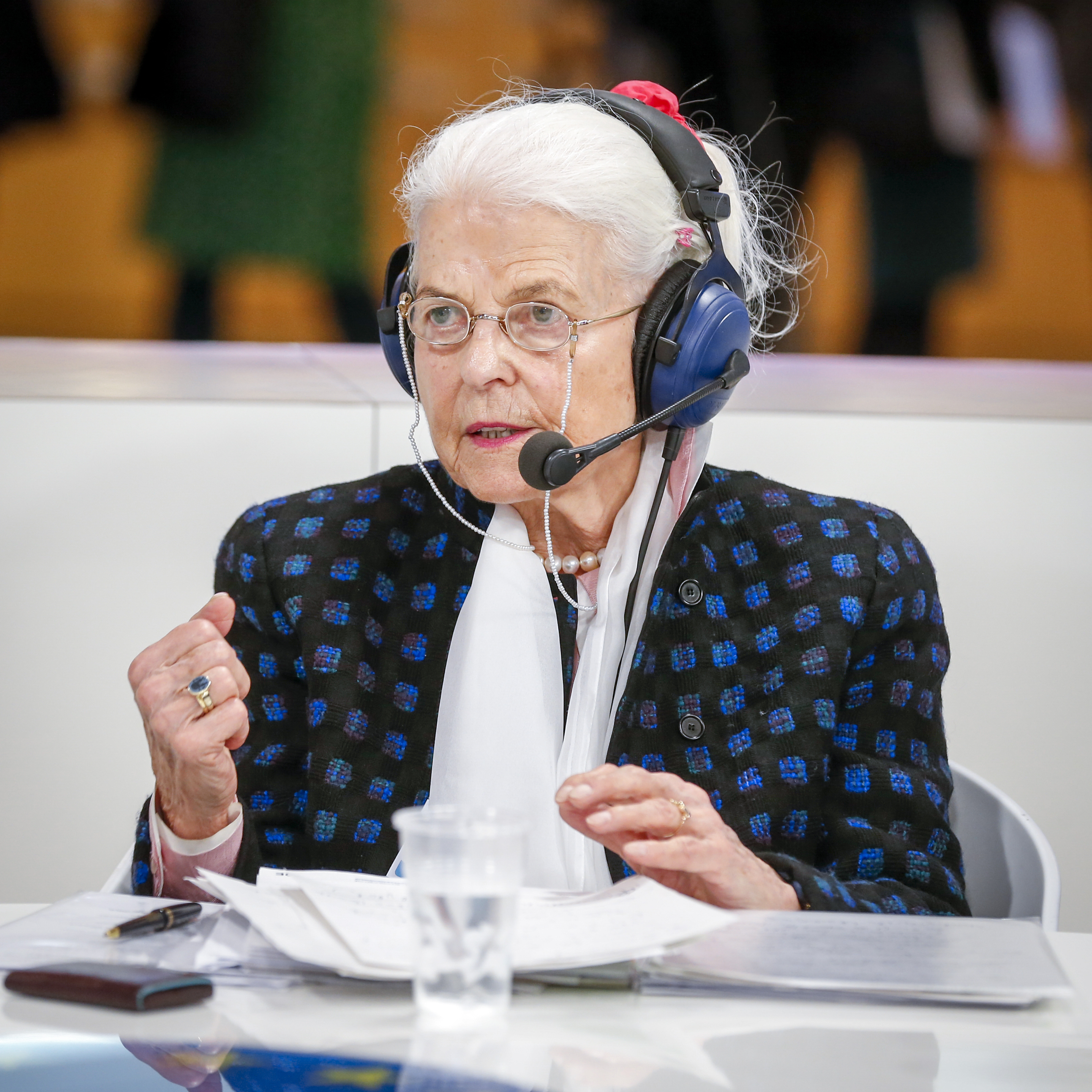 Healthcare in Europe is provided through a wide range of different systems run at national level. There’s no ‘One Size Fits All’ policy. Efficiency is one of the central preoccupations of health policy-makers and managers. So, how efficient are EU member states’ health systems; and what are the key differences between the public and the private ones? A Euranet Plus multilingual debate discussed these issues and asked: “What can the European Parliament do to improve the health systems in the EU?” The debate, broadcast live from the European Parliament in Brussels, was held in German and English. Get all the details: Part 1/2 | German | moderator Holger Winkelmann | guests: - Karin KADENBACH, MEP, Austria, Group of the Progressive Alliance of Socialists and Democrats in the European Parliament - Peter LIESE, MEP, Germany, Group of the European People’s Party (Christian Democrats - Evert Jan van Lente, director EU Affairs, AOK Health Insurance - Dr. Renate HEINISCH, member of the European Economic and Social Committee